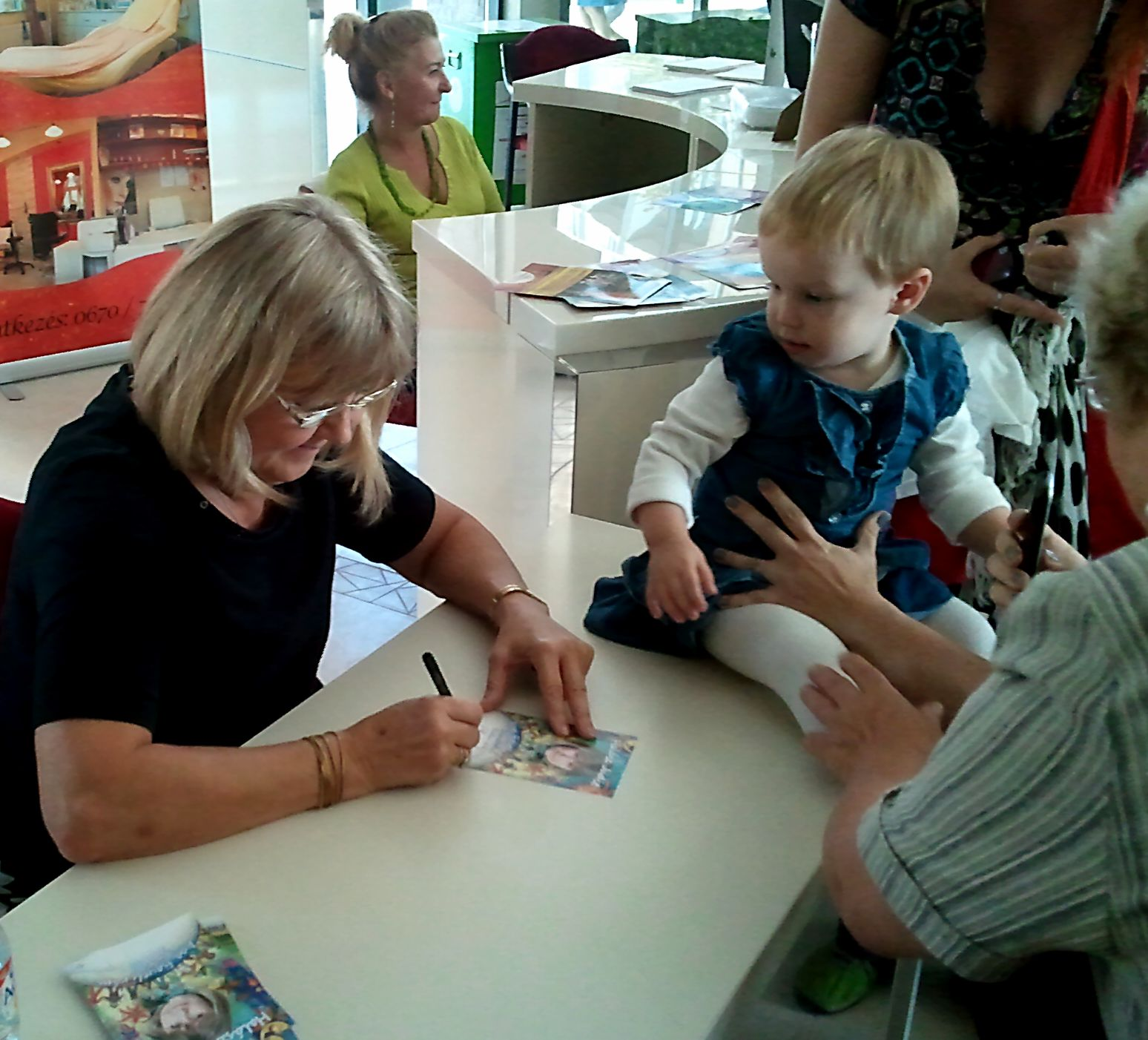 Judit Halász (actress)